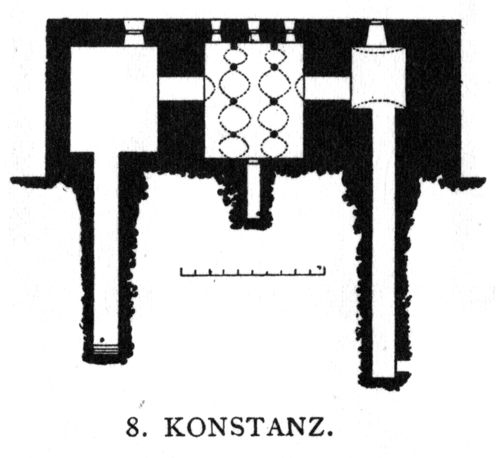 Cathedral of Konstanz. Crypt